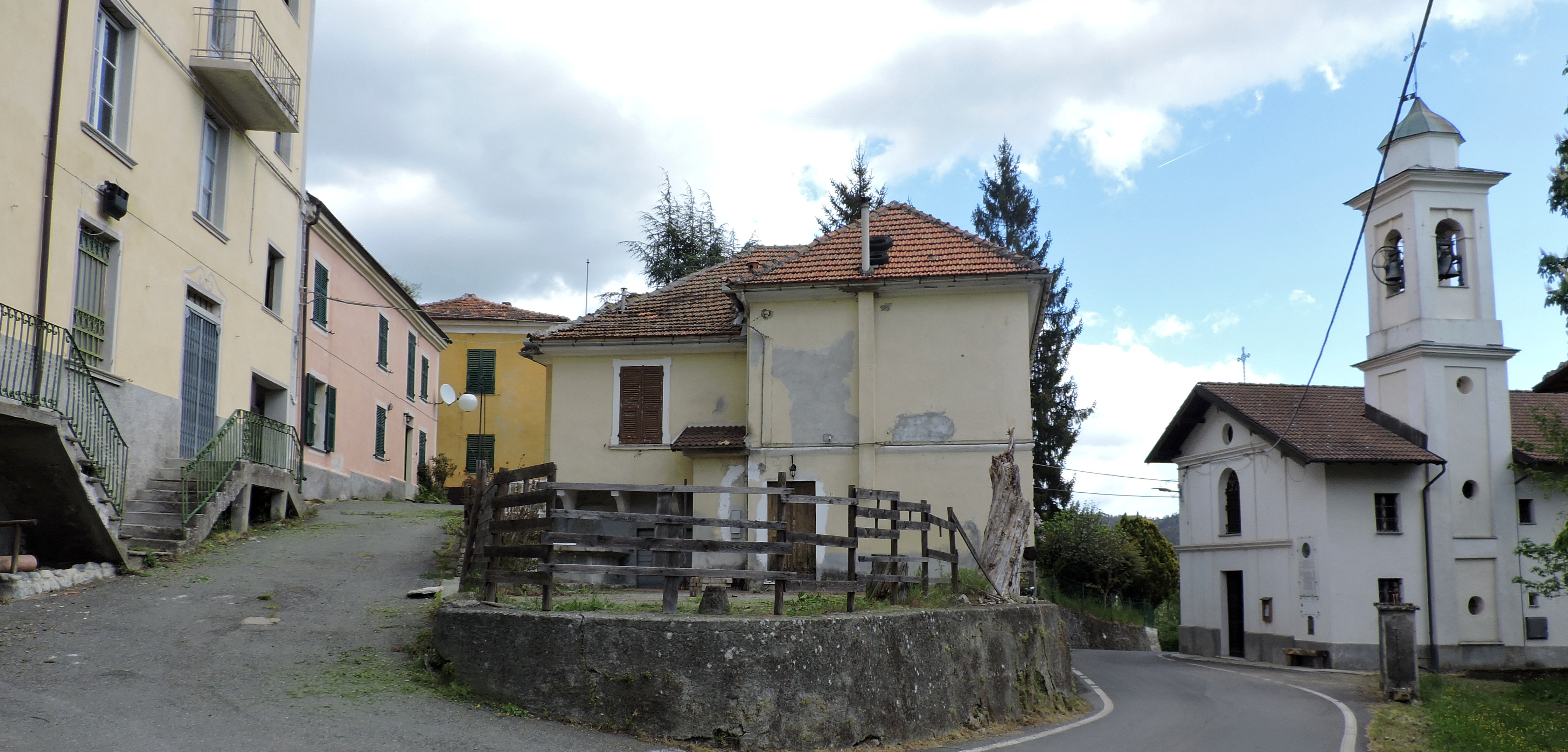 Olbicella (Molare, AL, Italy): panorama